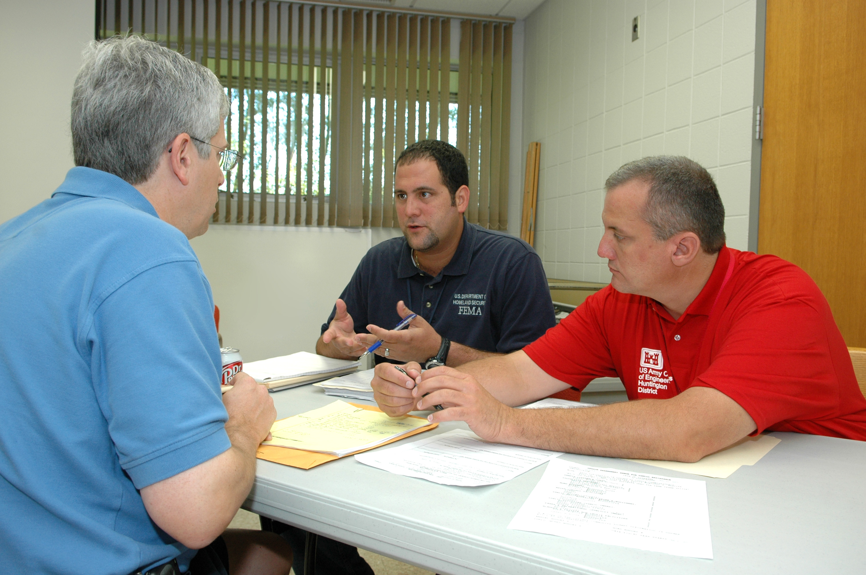 Findlay, Ohio, September 5, 2007 -- FEMA representative Jorge Lopez (center left) and USACE representative Brian Morgan (right) speak with an applicant at the Joint FEMA/State Preliminary Damage Assessment (PDA) meeting in Findlay. FEMA, USACE and Ohio EMA were getting information from applicants before computing their PDAs. Mark Wolfe/FEMA